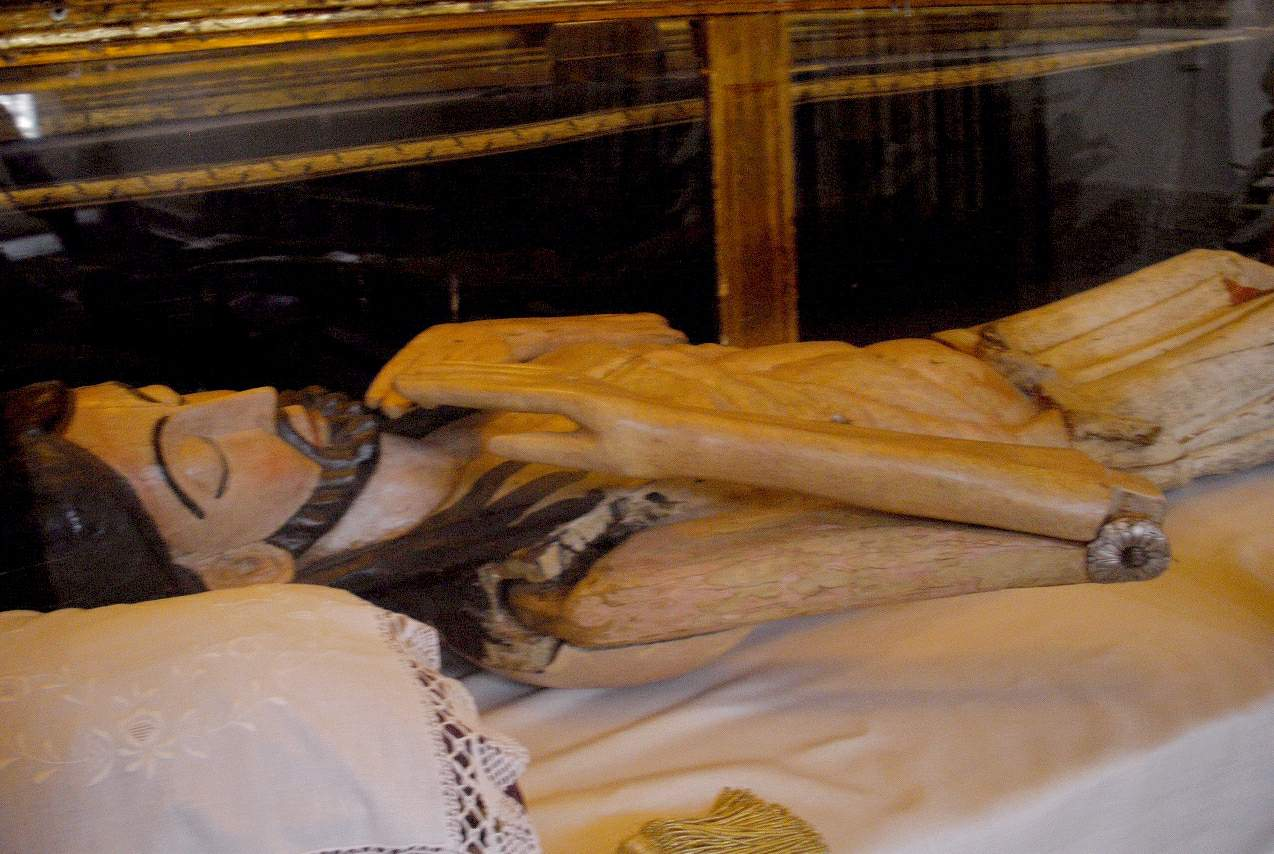 Santo Cristo de los Gascones, iglesia de San Justo, Segovia